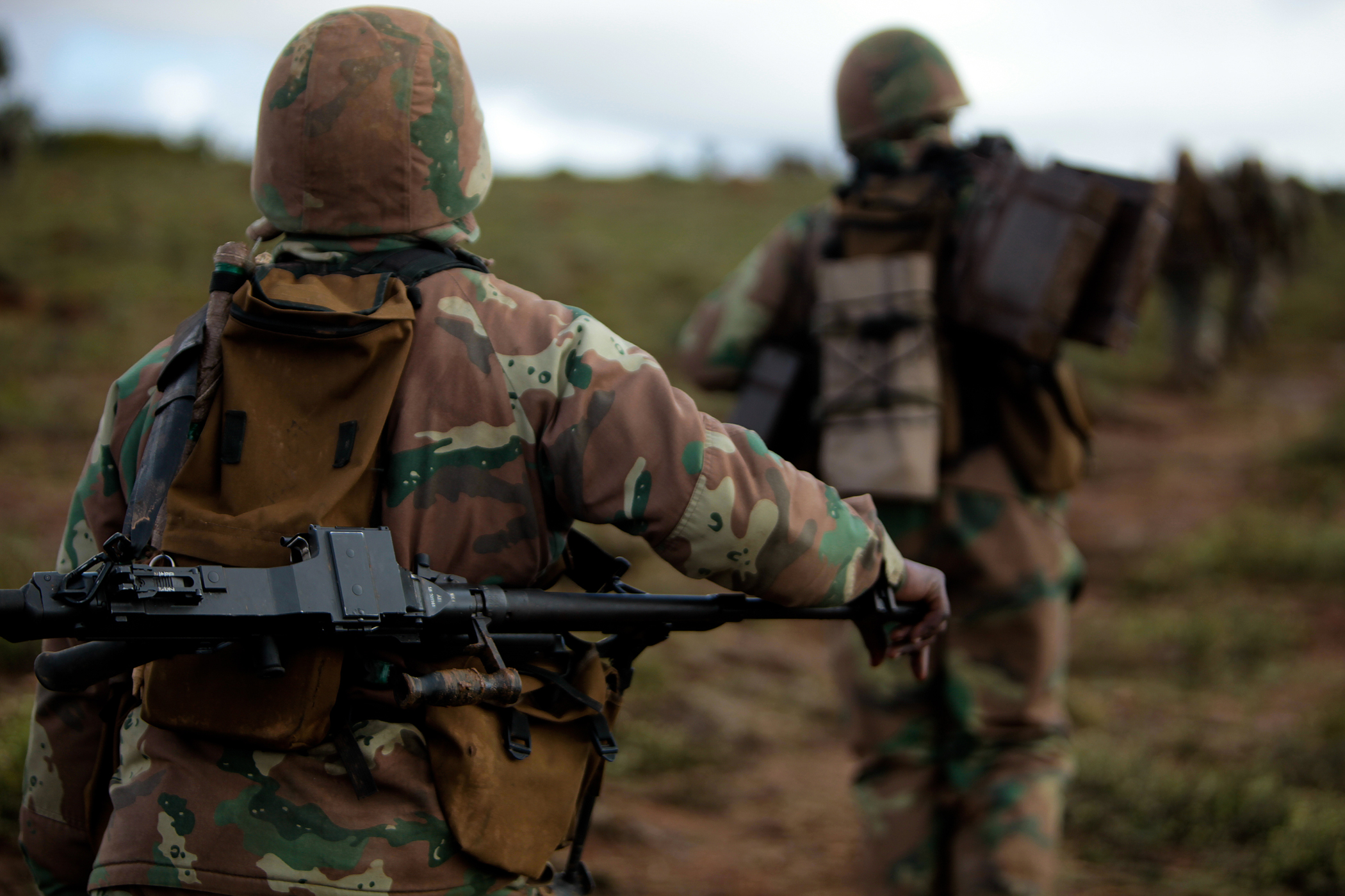 South African National Defence Force soldiers hike back up a hill during a joint U.S.-South African simulated assault on July 26 as part of Exercise Shared Accord 2011. SA '11 is a bi-lateral military training and civil assistance mission held annually throughout Africa.